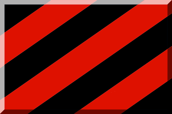 Fantasy flag